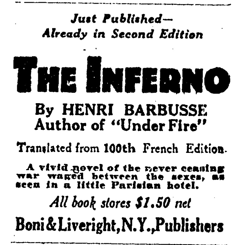 Advertisement